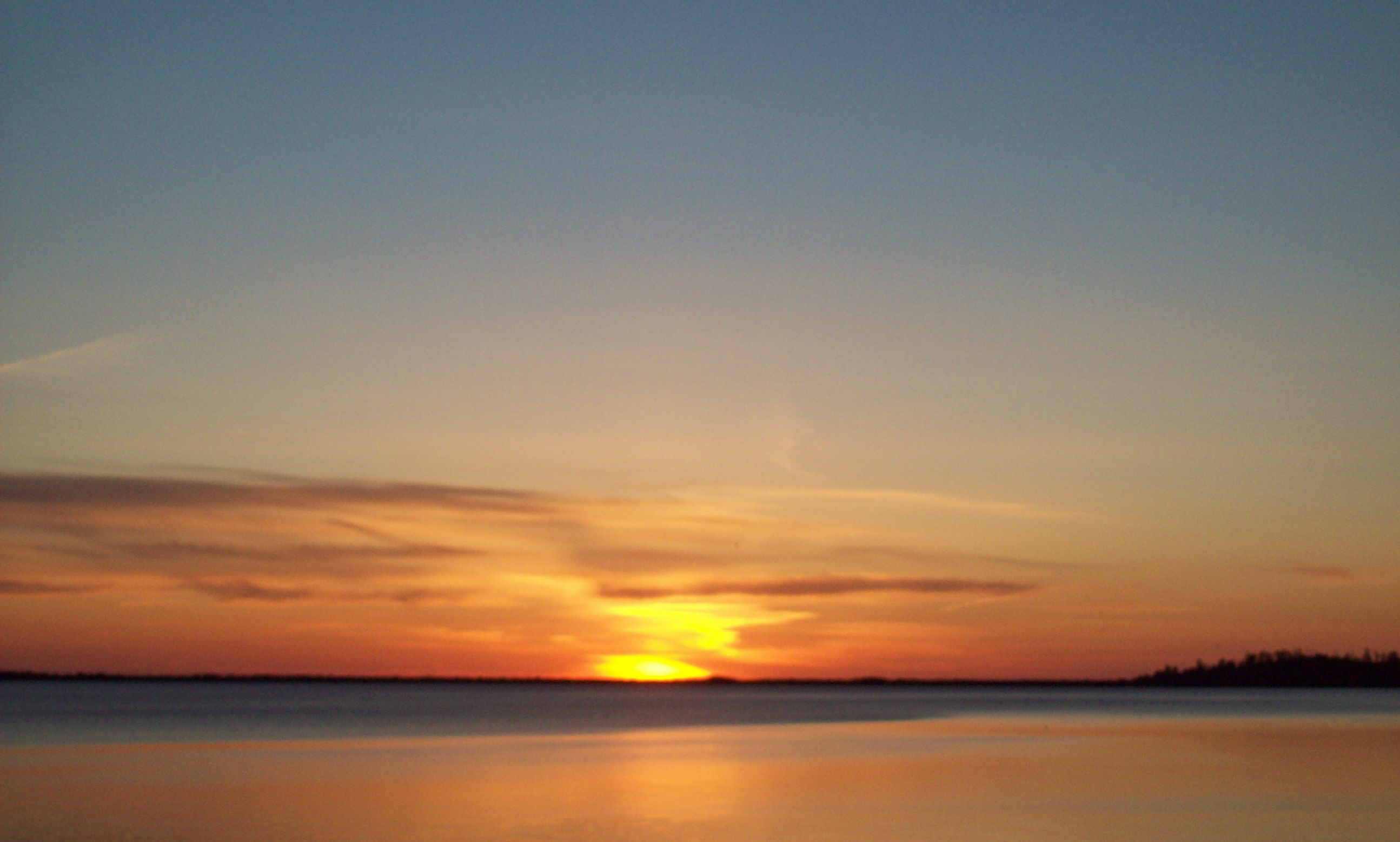 Sunset over Nehalem Bay on the northern Oregon Coast.